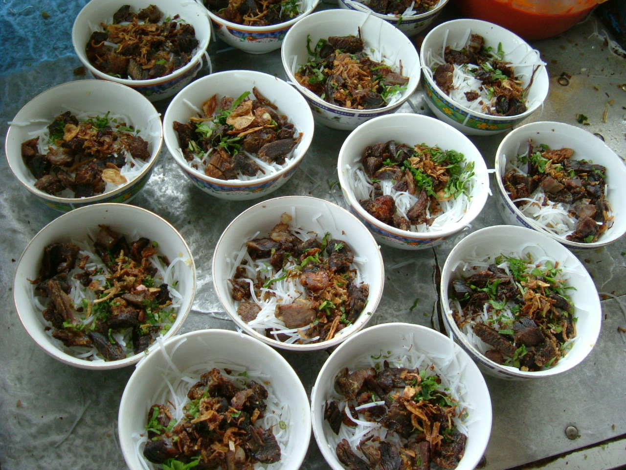 Soto Padang (ソトパダン) カリカリに揚げた牛肉と春雨のスープ。Locals favorite beef soup for breakfast/brunch in West Sumatra.